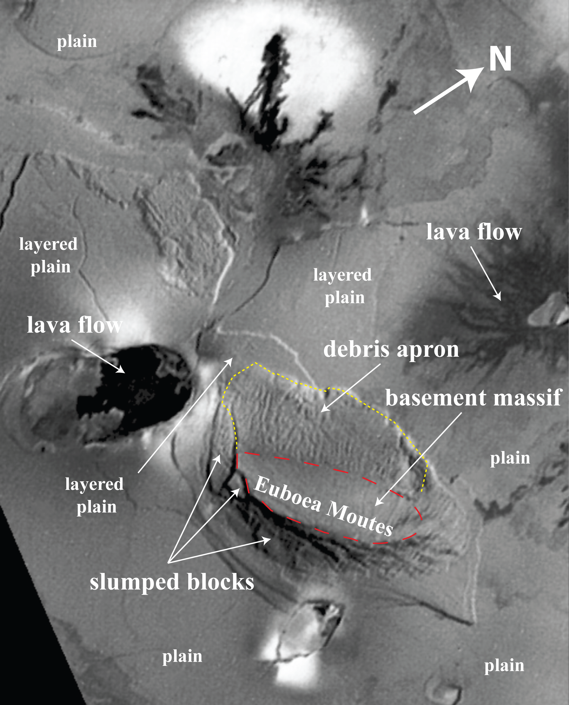 This image shows the mass wasting process and layered crust on Io. The example is Euboea Mount on Io. The shape of Euboea Montes, especially the northern flank's thick, ridged deposit, is interpreted by Schenk and Bulmer as evidence of slope failure along the entire face of the northern flank. They call the deposit at the base of the mountain a massive debris apron made by a rock and debris avalanche. Rocks moved down slope without water, trapped air, or hot volcanic gases. The estimated volume of the debris apron is about 25,000 km3. If this is true, then Euboea Montes has arguably the largest debris apron in the Solar System. Landslides in Valles Marineris or around Olympus Mons on Mars are also vying for the distinction as the "largest" as are submarine landslides on Earth. Northern portion of the image shows layered crust labeled "layered plain". Interpretations from Schenk, P.M.; Bulmer, M. H. (1998).